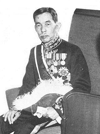 Kitokuro Ichiki